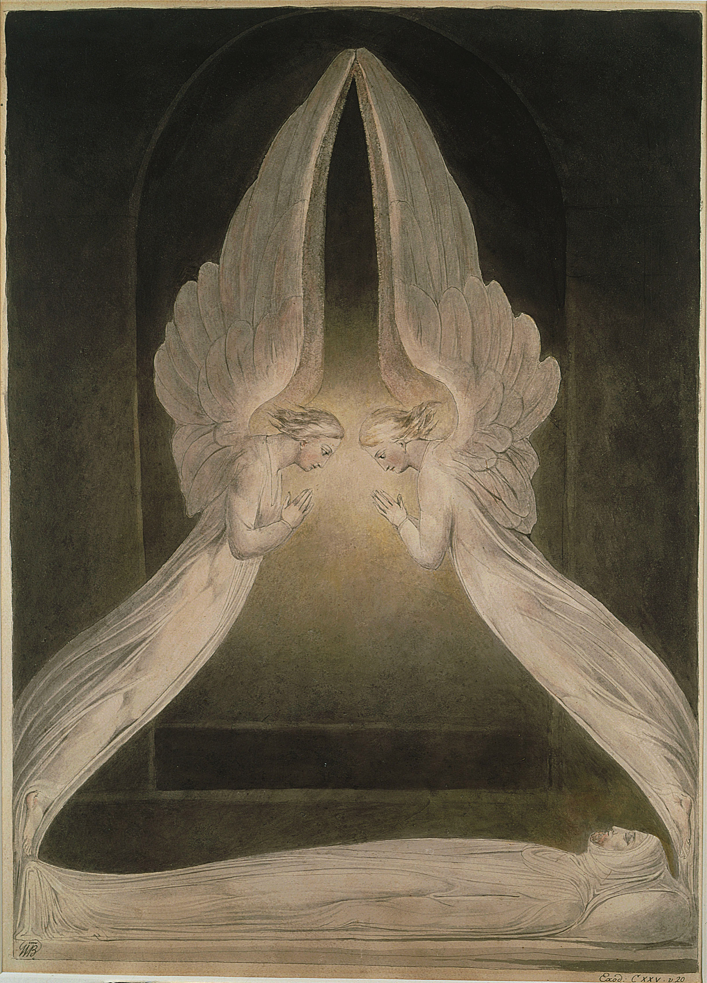 Christ in the Sepulchre, Guarded by Angels